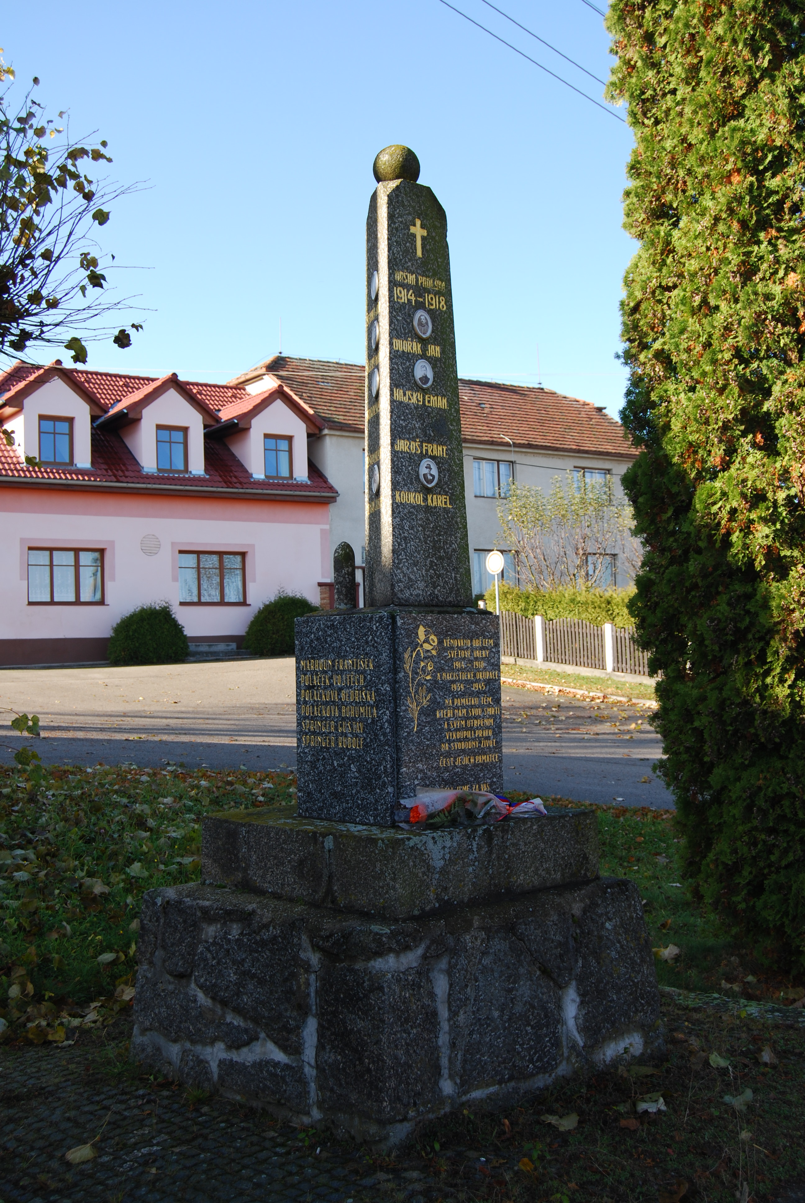 Chrášťany village in České Budějovice District, Czech Republic. World War One memorial